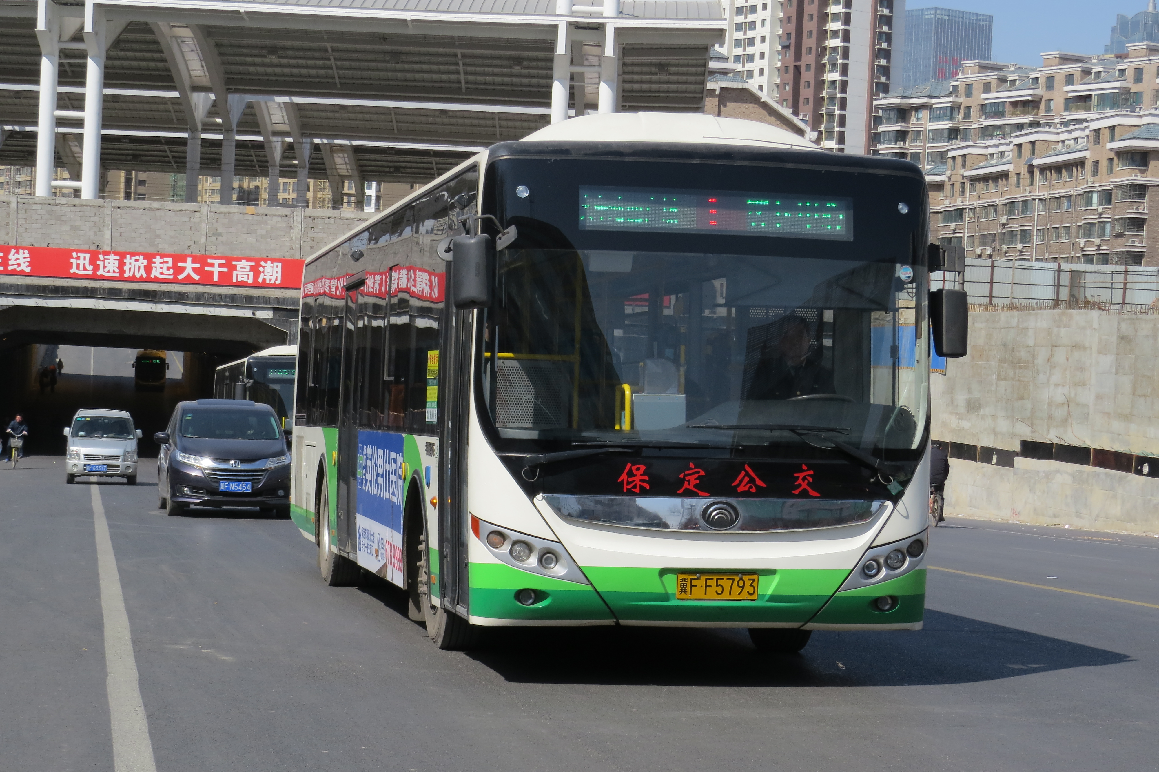 Route 1 uses Yutong ZK6120CHEVG1 hybrid buses.